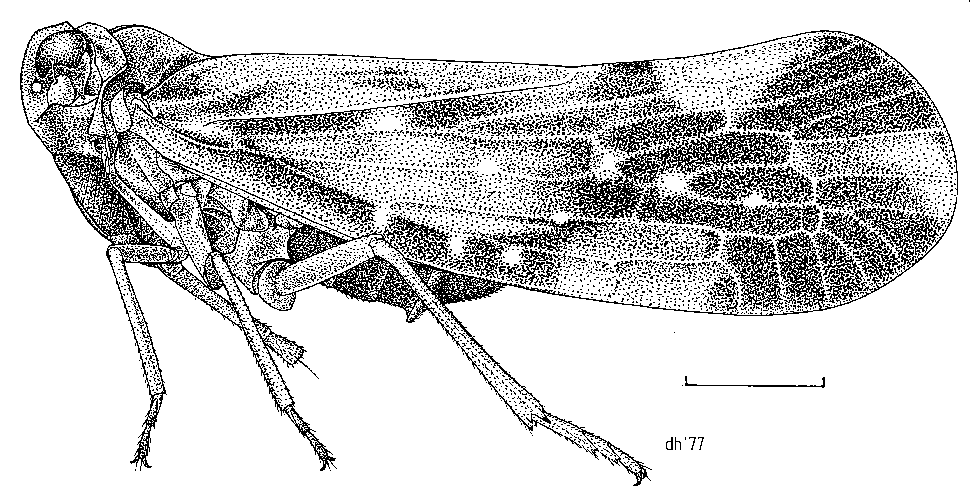 (Hemiptera: Derbidae) Eocenchrea maorica illustrated by Des Helmore.